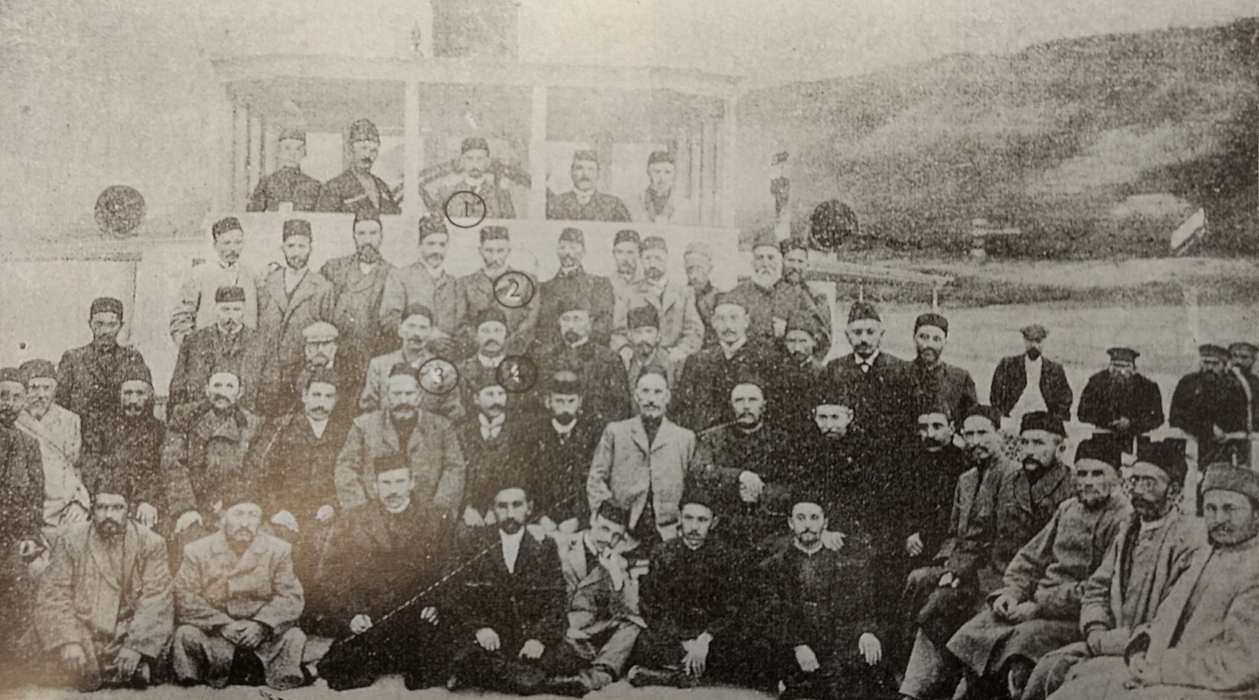 1. Fatih Kerimi, 2. Abdurrashid Ibrahimov, 3. Ismail Gaspirali, 4. Ali Merdan Topchibashyiyev